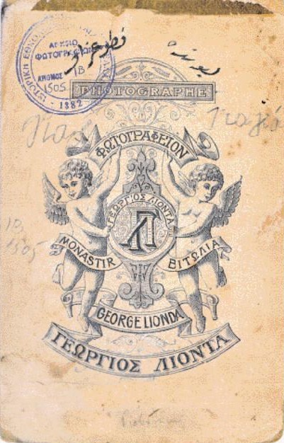 Georgios Liondas Foto